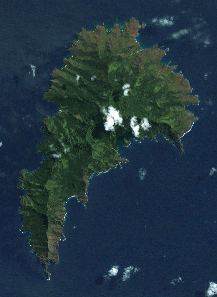 Tahuata Island, viewed from space. Marquesas islands, French Polynesia.